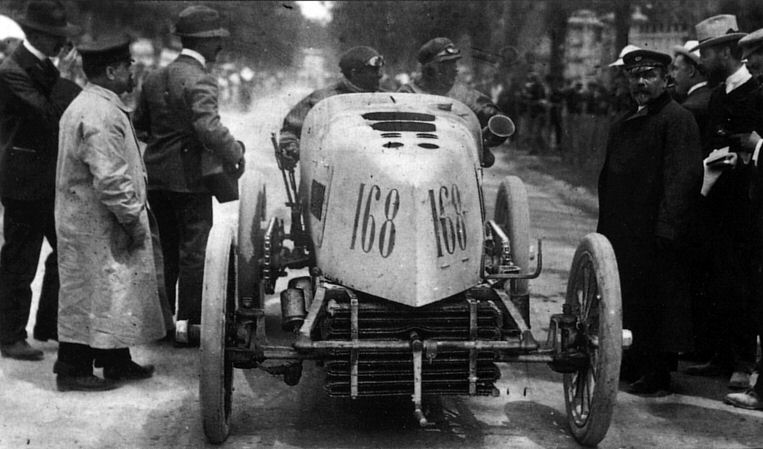 Fernand Gabriel driving a Mors "Dauphin" in Paris-Madrid 1903. When the race was stopped in Bordeaux due to many accidents, he was declared winner; he by then lead with a time of 5 hrs 14 min 31 sec, averaging 105,060 km/h Scanned from Auto Passion that published the picture without any credits. Notice dark skin tones resulting from the use of non-panchromatic emulsion.